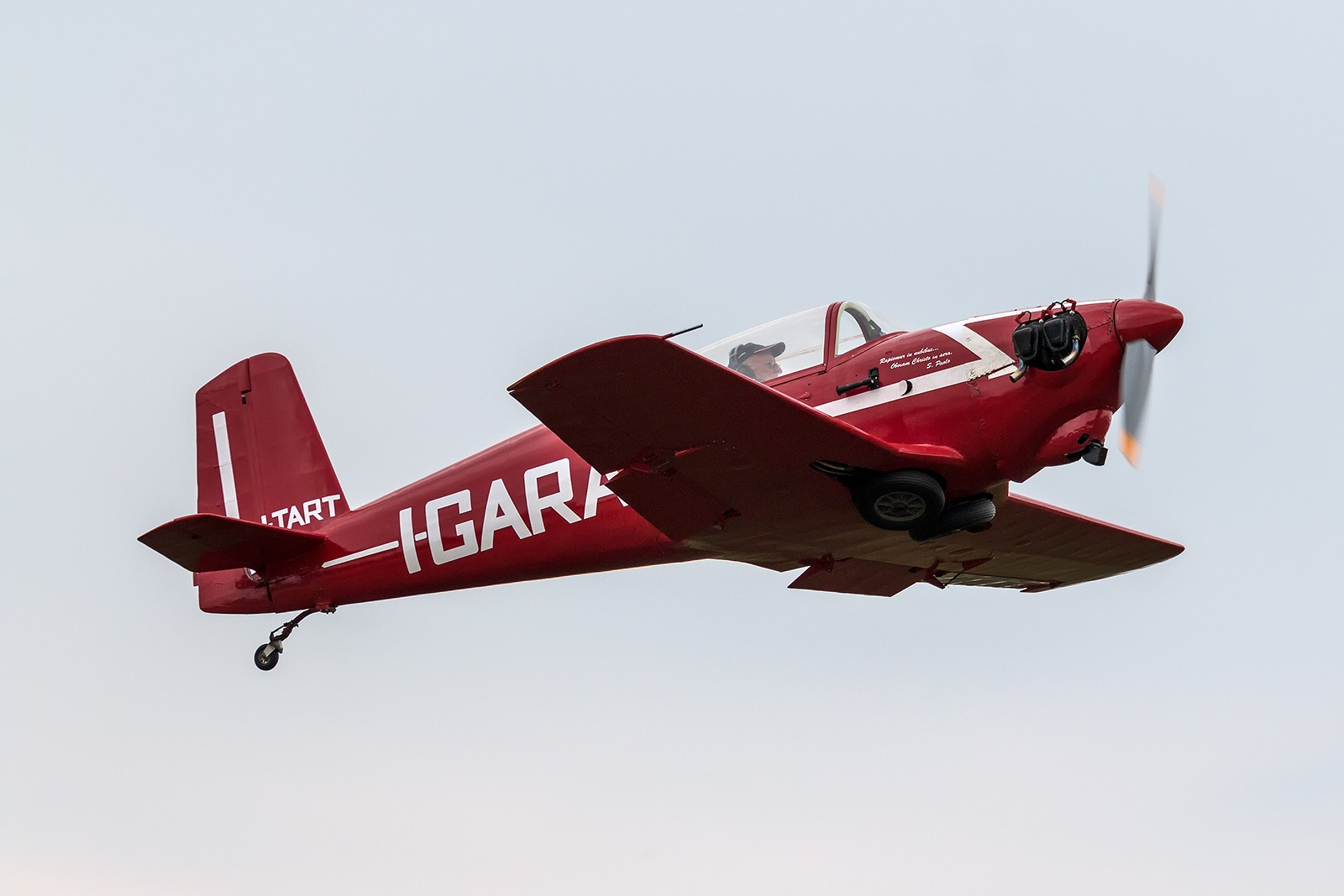 PM-280 I-GARA